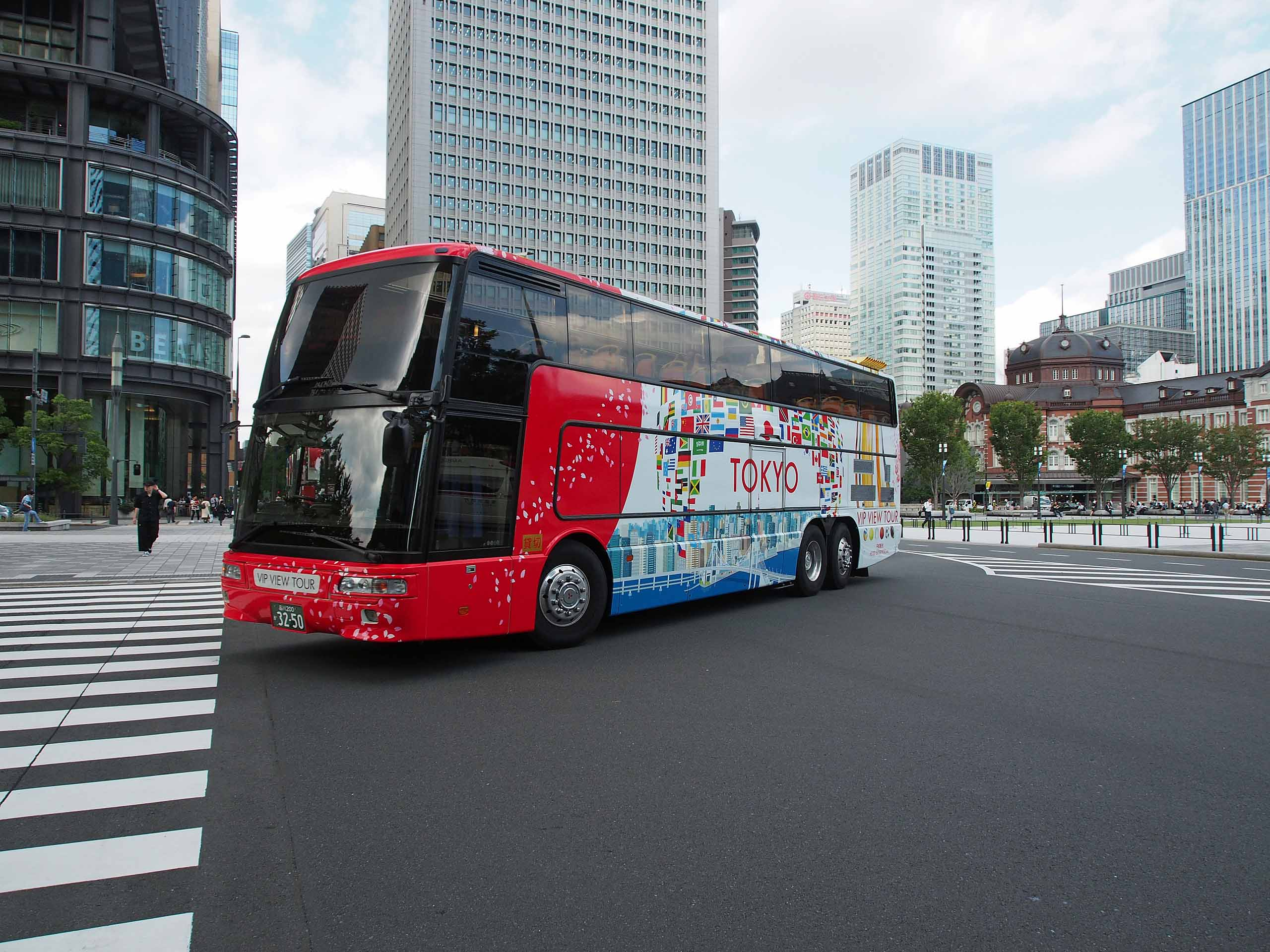 Fleet of Heisei Enterprise, Open top bus for Tokyo city tour "VIP View Tour". Model: Mitsubishi Fuso Aero King MU612 License plate: TKS200 KA3250 Place: Marunouchi, Chiyoda Ward, Tokyo Japan